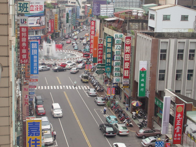 A main street in Chiayi.